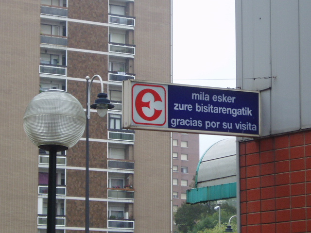 Eroski's former logo at Txurdinaga (Bilbao) store.